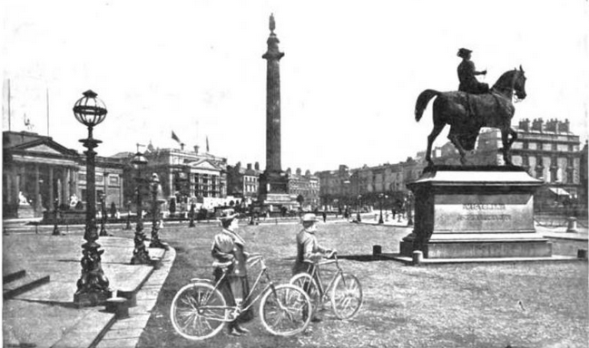 Alice Lee Moqué with her husband, John Oliver Moqué, with bicycles in St. George's Square Liverpool